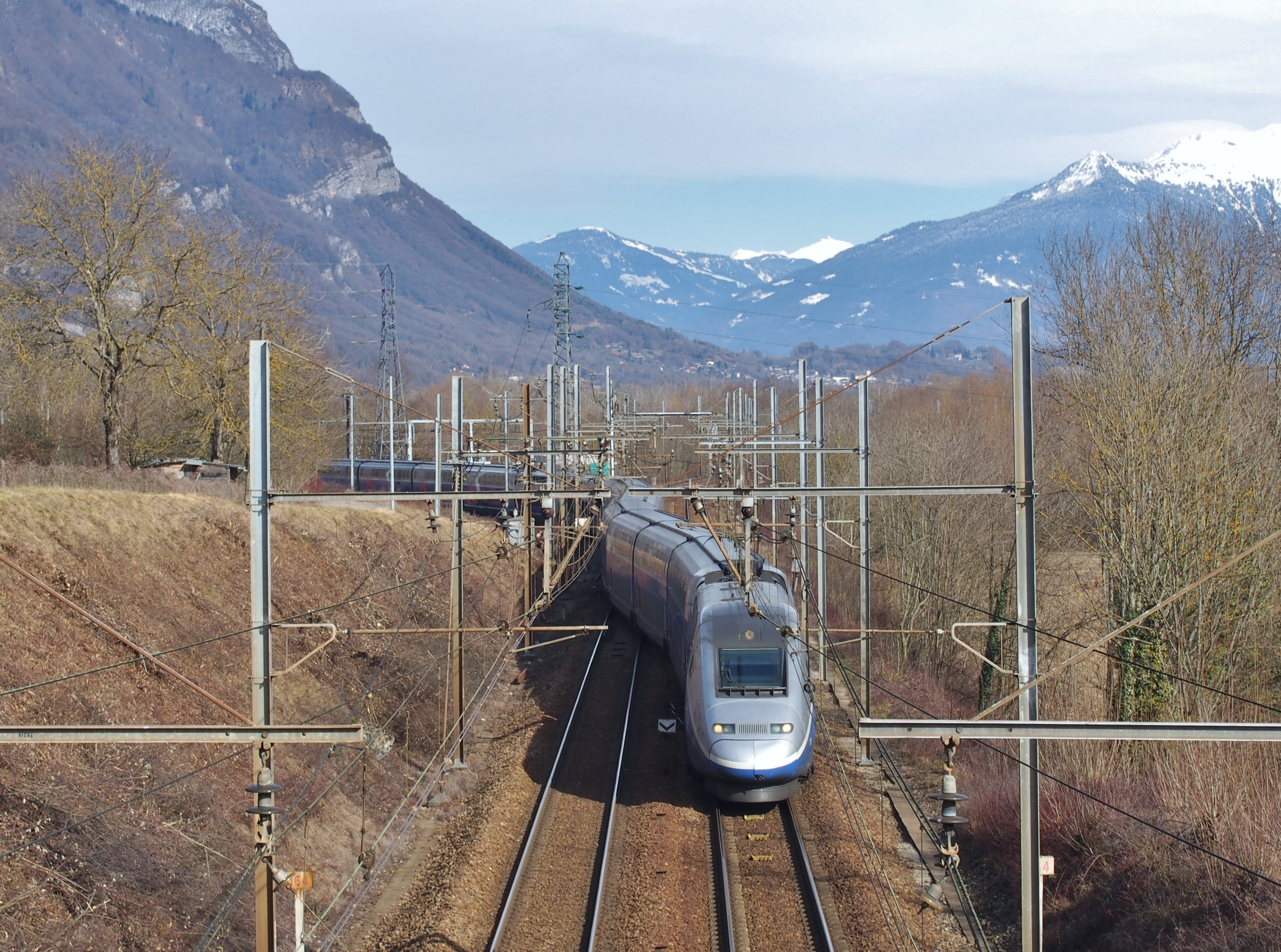 Sight of French SNCF TGV n°5394 from Bourg-Saint-Maurice in Savoie to Nantes in Loire-Atlantique, here leaving the Tarentaise line, and then soon, the Alps behind.